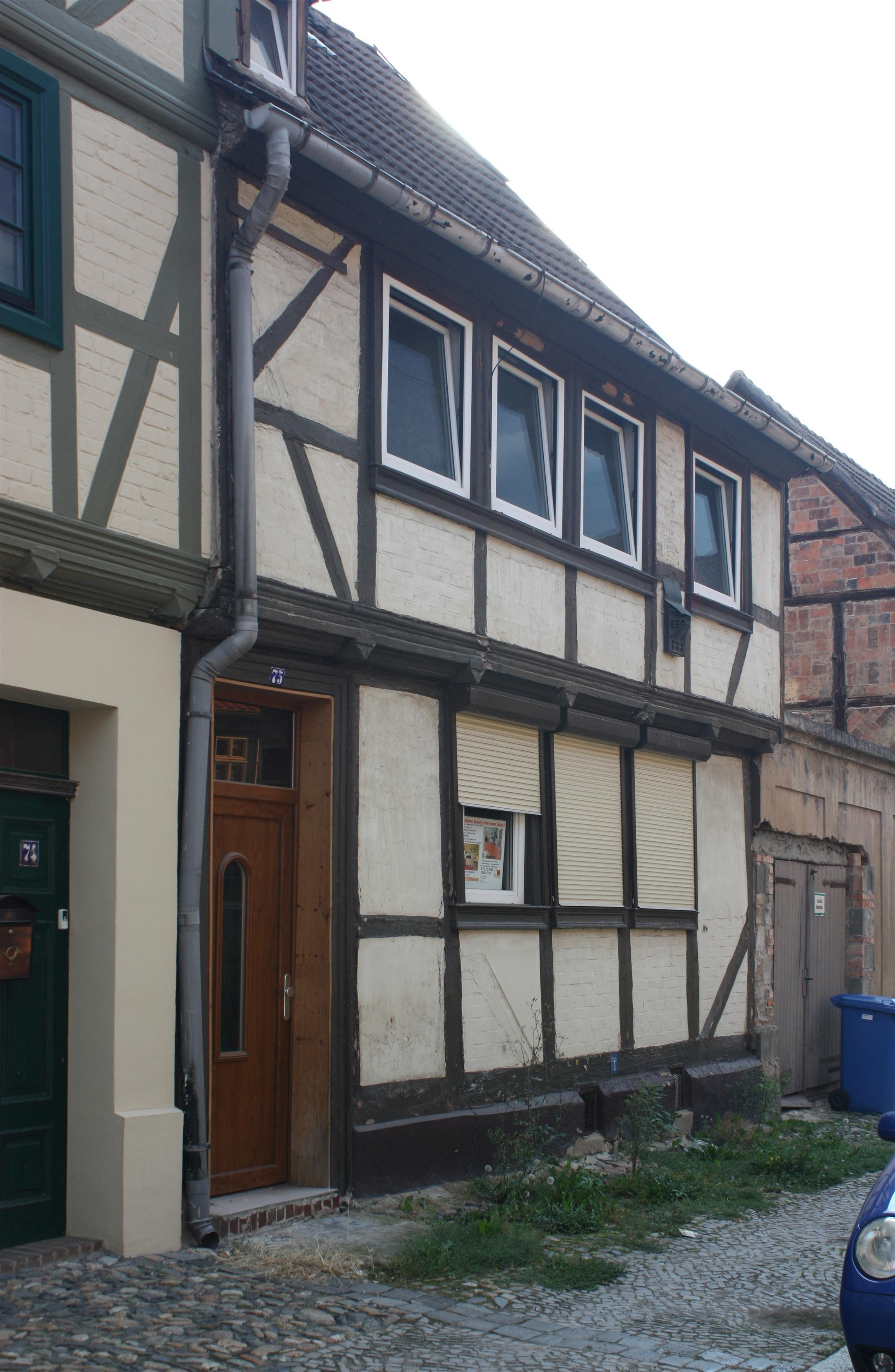 This is a photograph of an architectural monument.It is on the list of cultural monuments of Quedlinburg Augustinern 75 in Quedlinburg